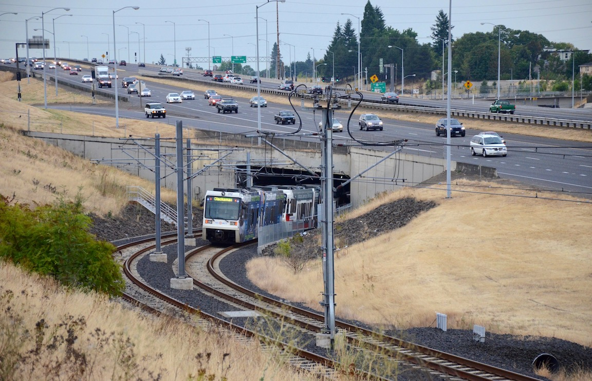 The north portal of the MAX Green Line's tunnel under I-205, with a southbound train (going away from the camera, with car 312 closest) entering the tunnel. The tunnel takes the MAX tracks between the freeway's east side (seen here) and its west side. It was built in the early 1980s for future use as part of a transitway (predicted at the time to be a busway) but stood unused for more than 25 years until outfitted in 2007–08 for use by the MAX light rail system's Green Line.